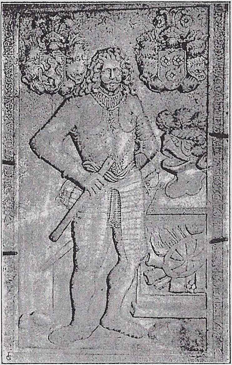 gravestone of Christoph von Unruh, the possessor of Międzychód (1620-89)